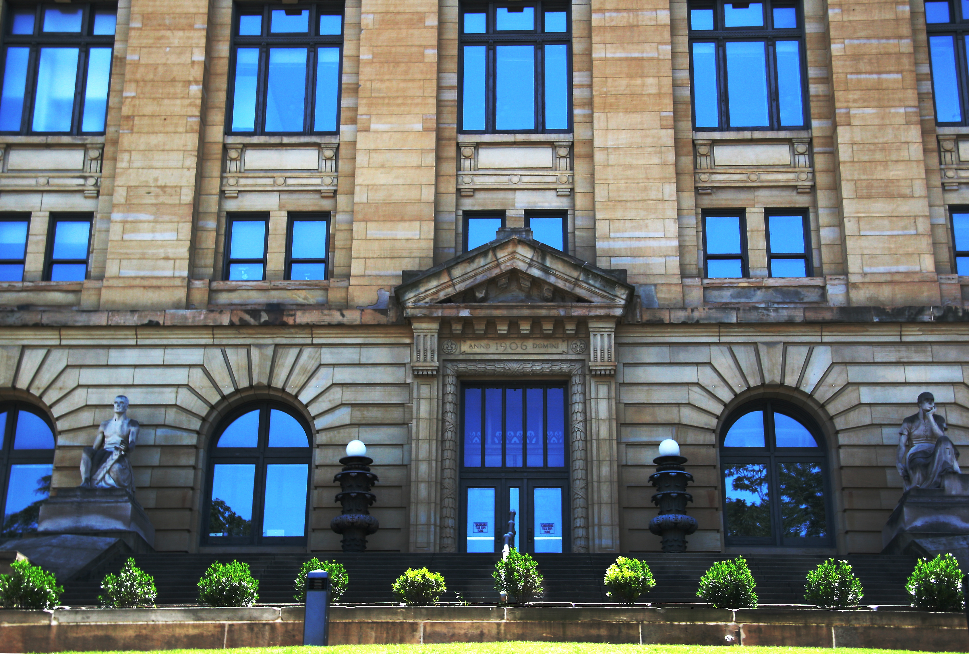 Summit County Courthouse in Akron, Ohio in the USA